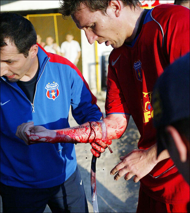 Victoras Iacob in May 2006 after the match with Gloria Bistrita.